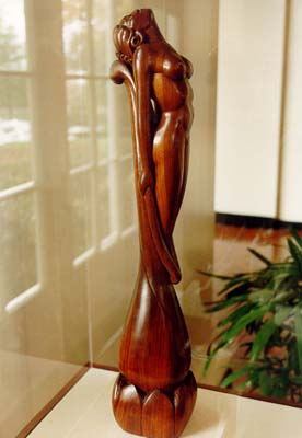 Willard Stone (non-enrolled Cherokee descent),1915–1985 "Lady of Spring," n.d Walnut, 27.5" x 5" x 5.5" The Gilcrease Museum, Tulsa, Oklahoma